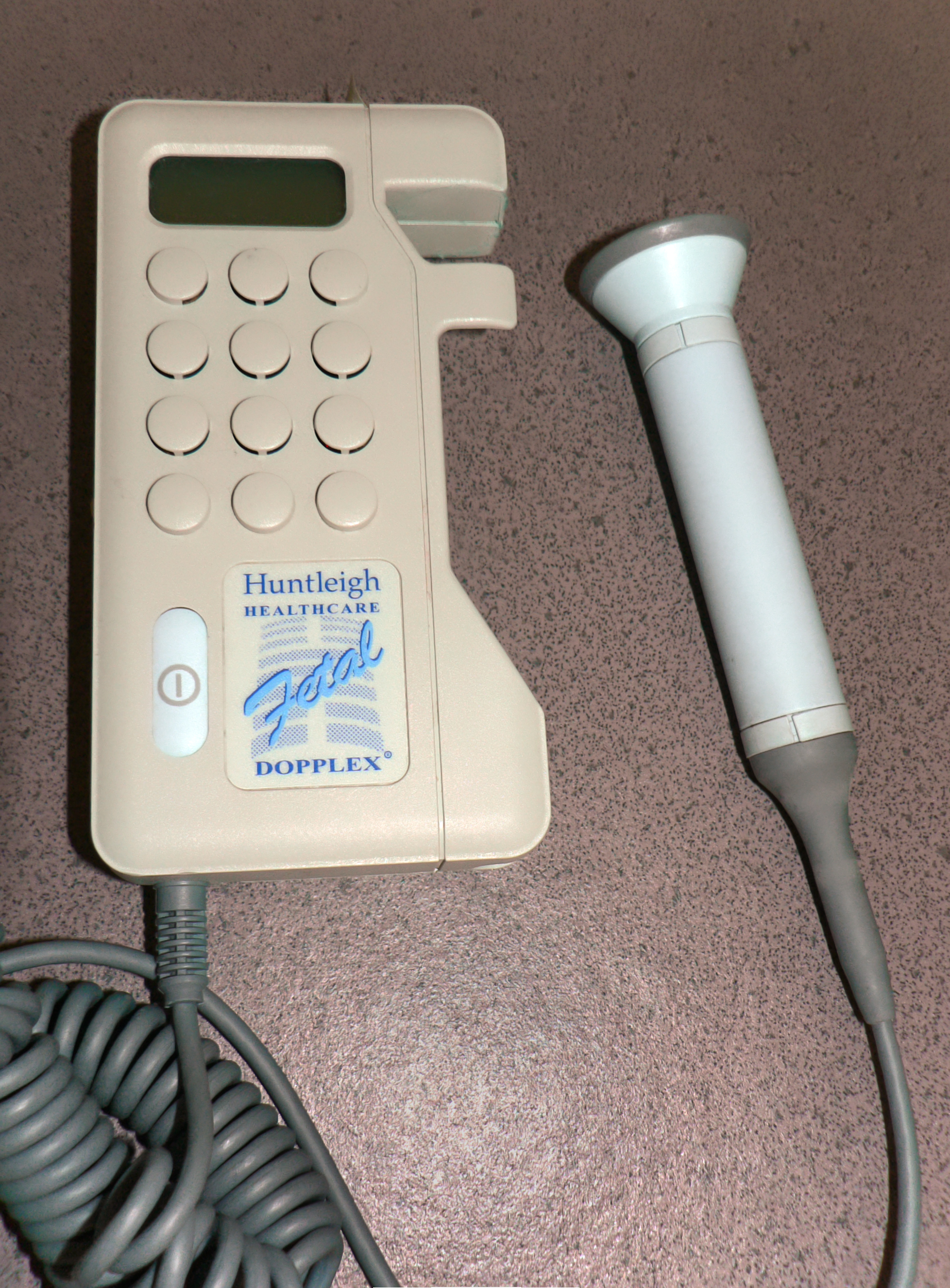 doptone: registers fetal heartbeat Huntleigh healthcare Fetal Dopplex